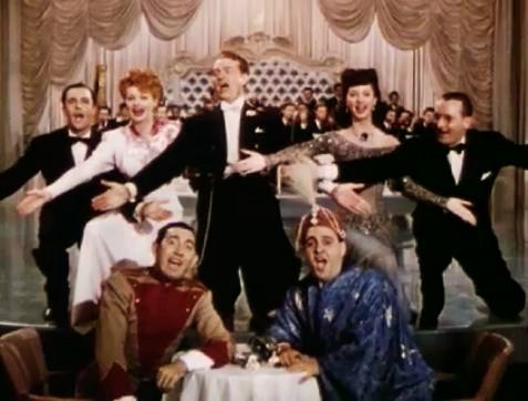 L. to R. : Rags Ragland, Zero Mostel (seated), Gene Kelly, Lucille Ball, Red Skelton, Virginia O'Brien & Tommy Dorsey (behind them) in Du Barry Was a Lady - trailer (cropped screenshot)